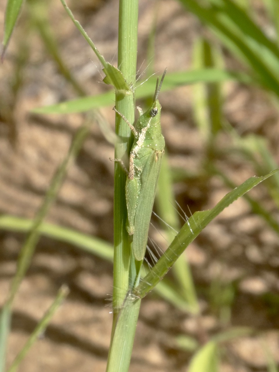 Female Pyrgomorpha cognata photographed near Gnibi, Senegal